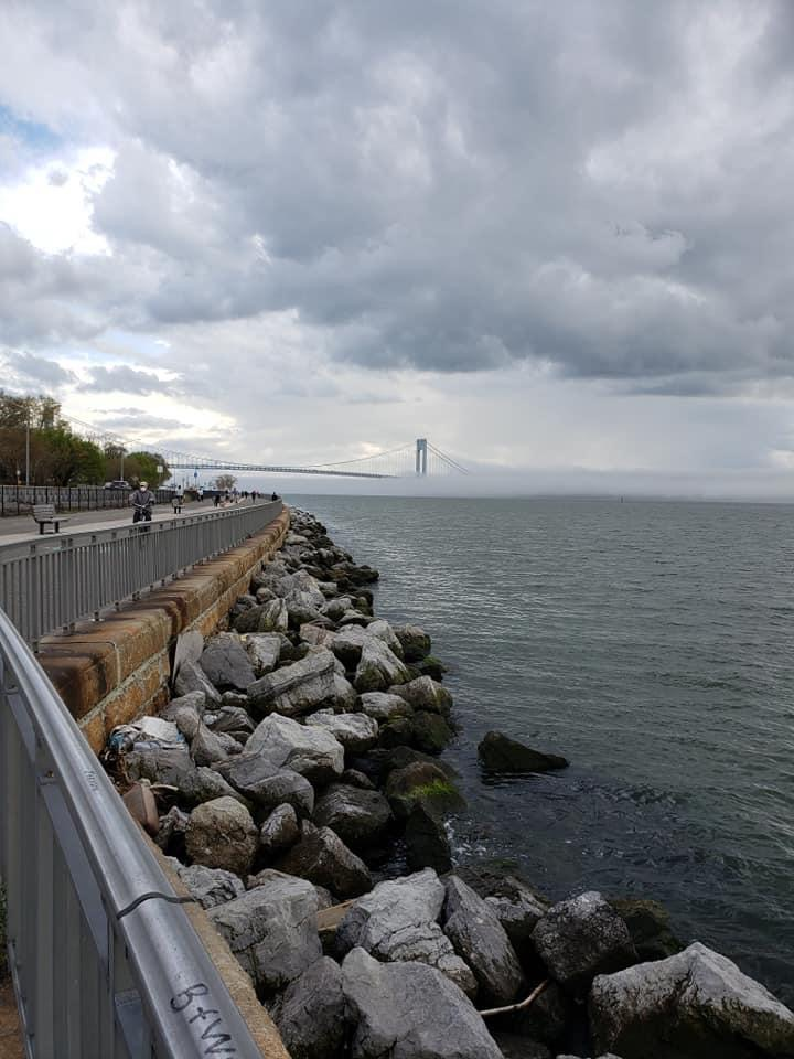 The Verrazzano Bridge on a foggy day, as seen from Shore Road Park and Parkway.